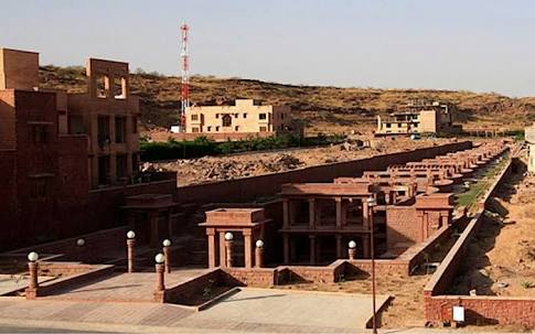 Birkha Bawari2, Jodhpur